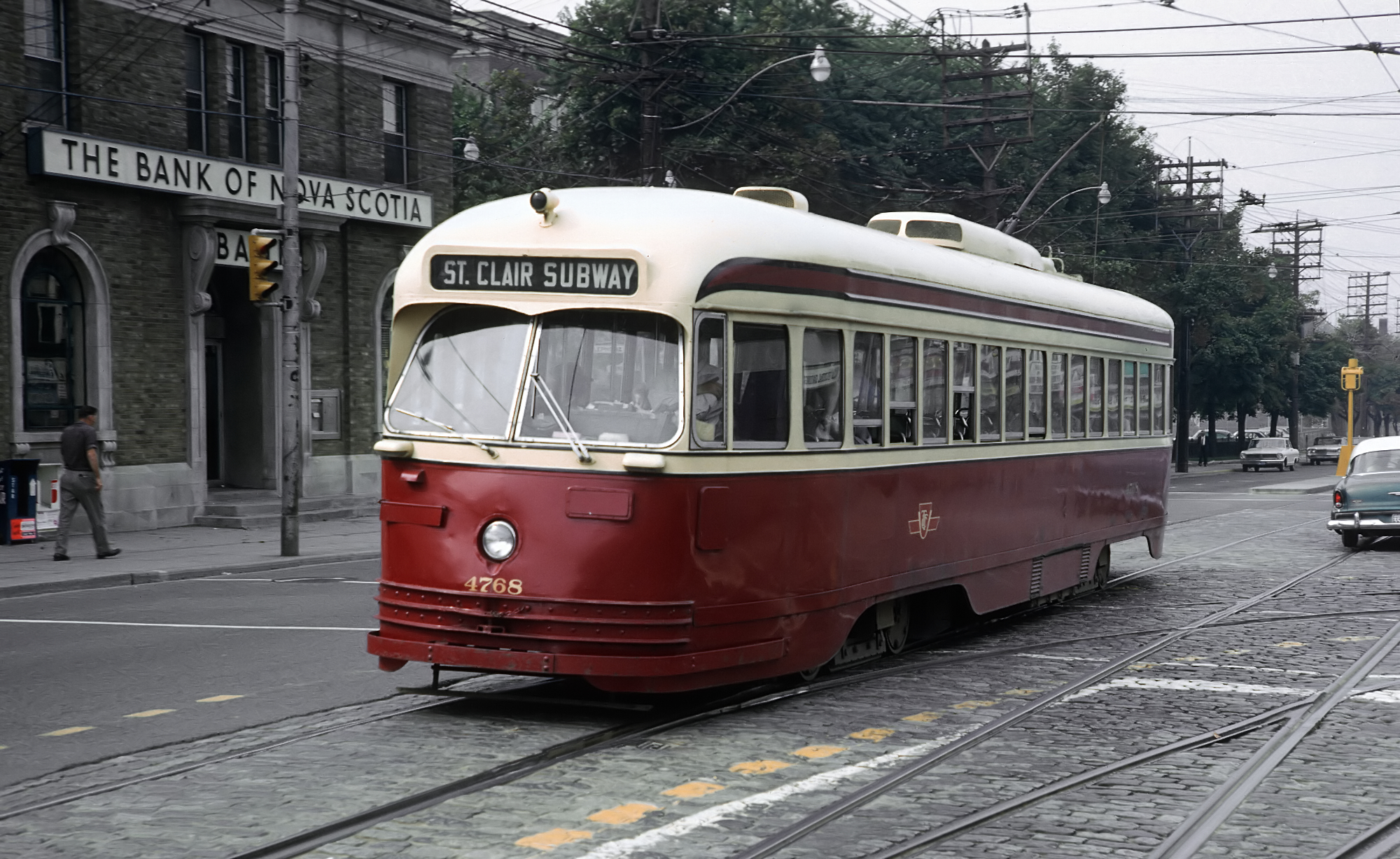 A Roger Puta photograph